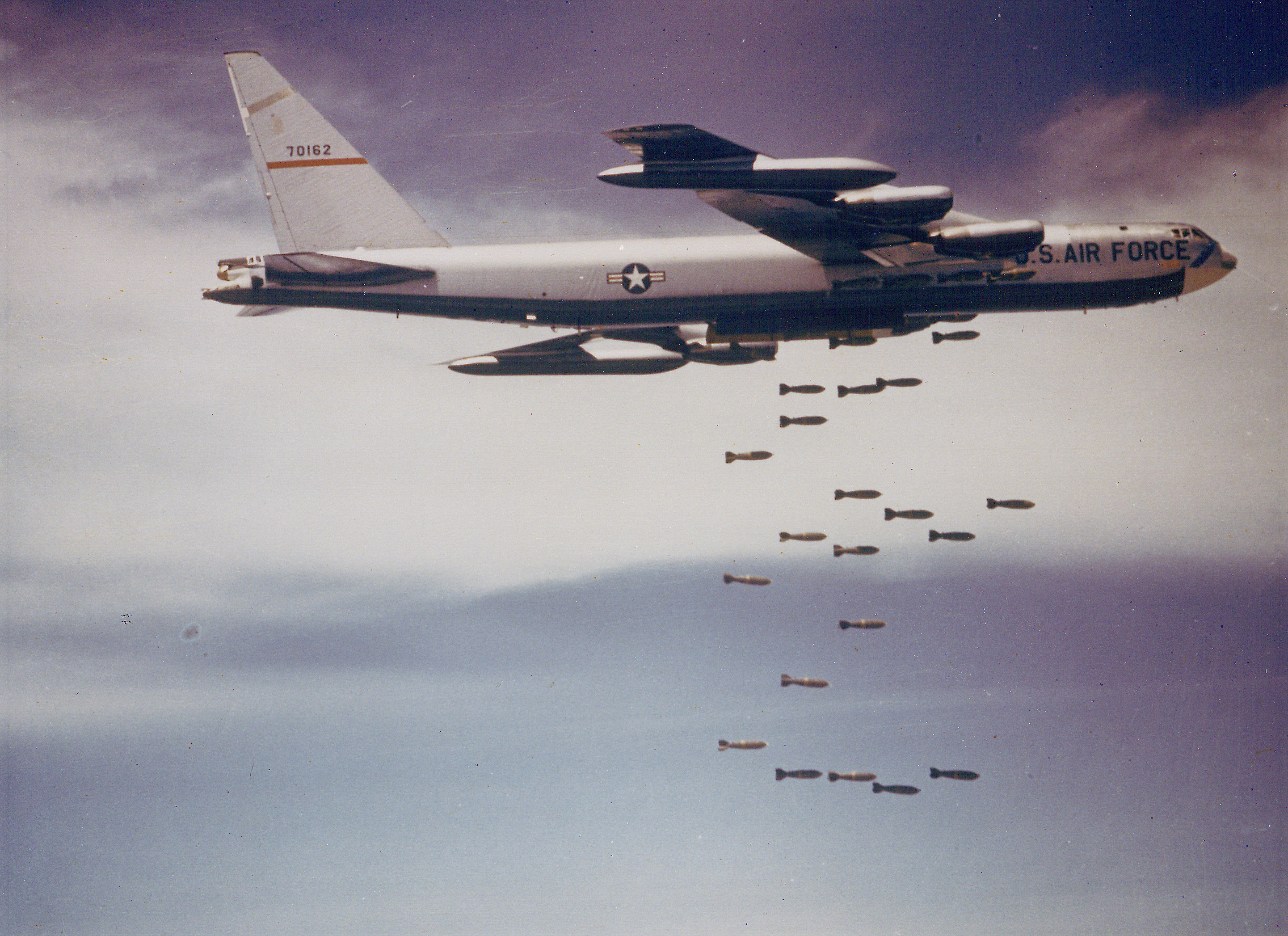 B-52F Stratofortress dropping bombs in the 1960's